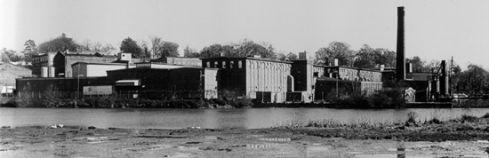 Piedmont Number One, Piedmont (Greenville County, South Carolina) Number One is in the center of photograph. This image or media file contains material based on a work of a National Park Service employee, created during the course of the person's official duties. As a work of the U.S. federal government, such work is in the public domain. See the NPS website and NPS copyright policy for more information.